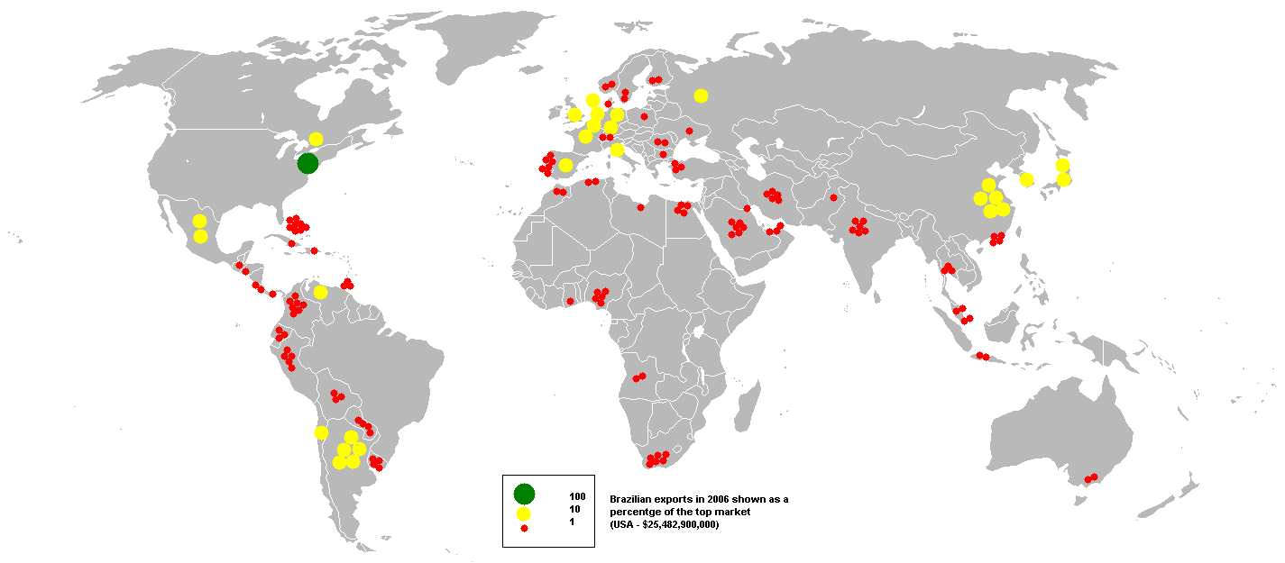 This bubble map shows the global distribution of Brazilian exports in 2006 as a percentage of the top market (USA - $25,482,900,000). This map is consistent with incomplete set of data too as long as the top producer is known. It resolves the accessibility issues faced by colour-coded maps that may not be properly rendered in old computer screens. Data was extracted on 26th September 2007 from Based on :Image:BlankMap-World.png